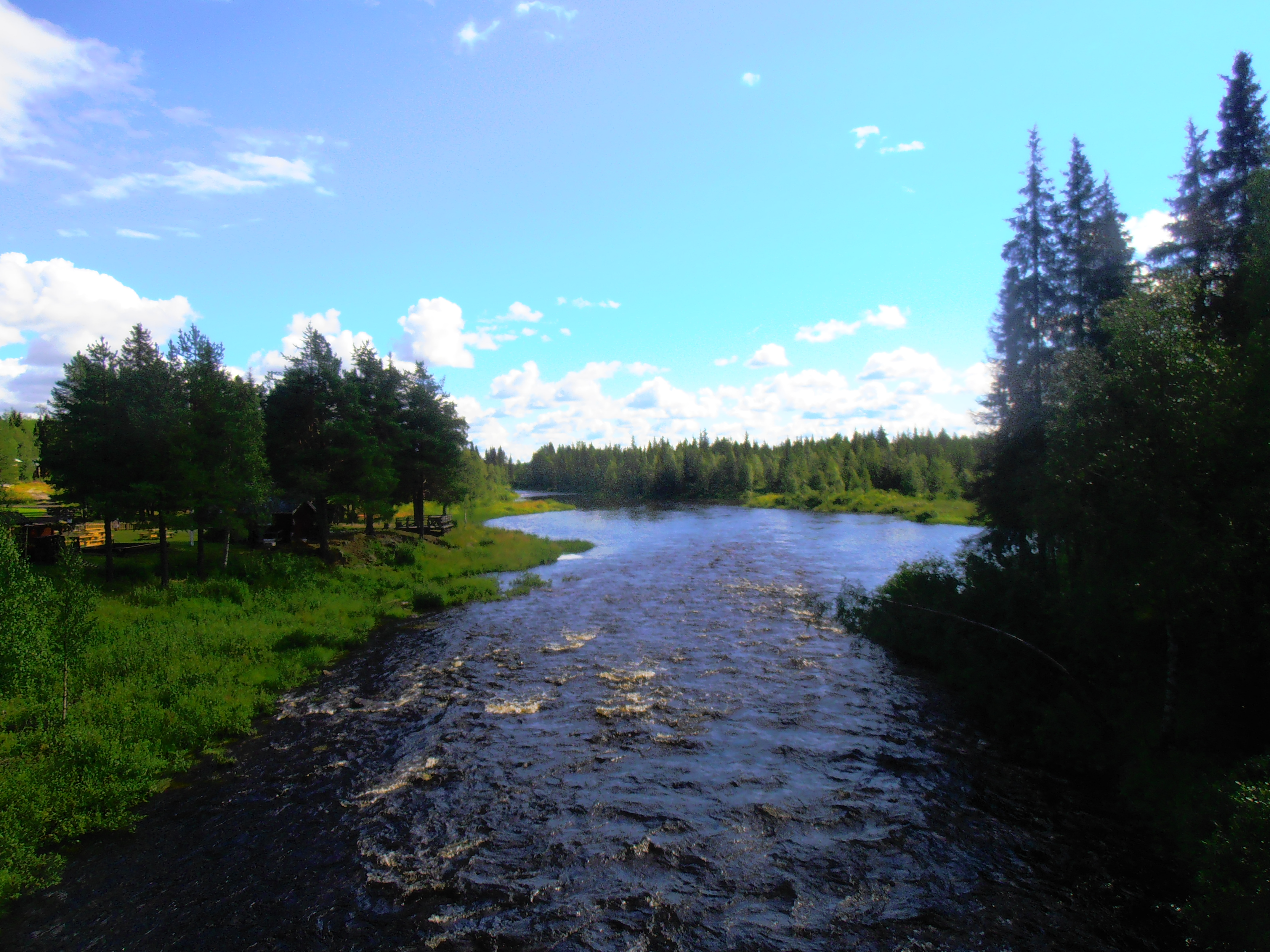 Venetjoki, Gällivare